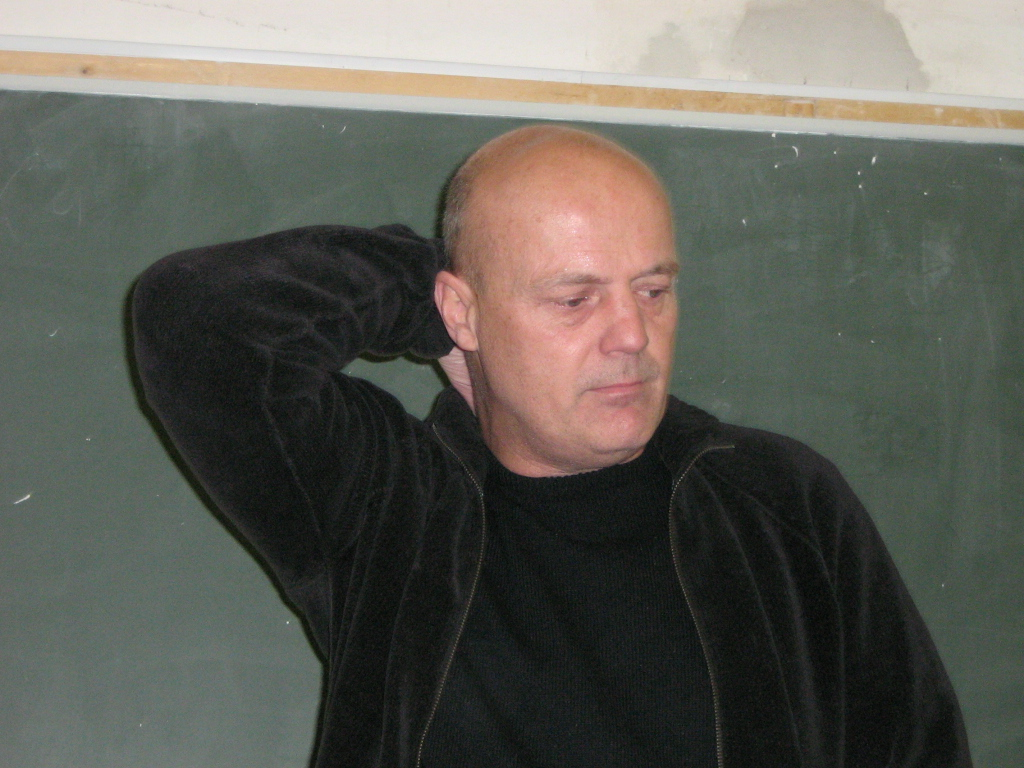 Endre Kukorelly at schoole. Photo by Agnes Modis.